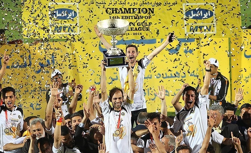 Celebrations after Sepahan won 2014-15 Iran Pro League title